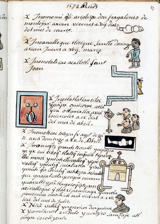 Codex Aubin, page 3.